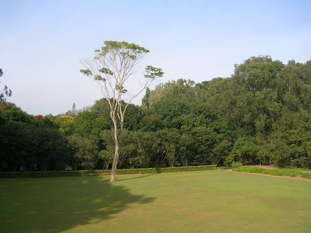 Lawn of the Raman Research Institute, Bangalore. The tall tree (Tabebuia donnell-smithii) is a memorial to Sir C V Raman, which grows on the ashes of Sir C V Raman